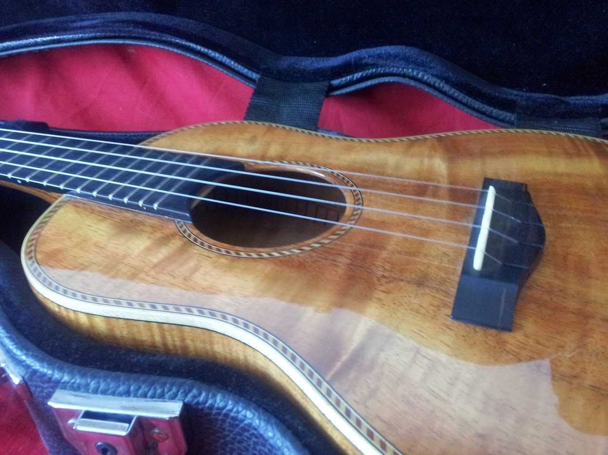 Ukulele made of koa wood